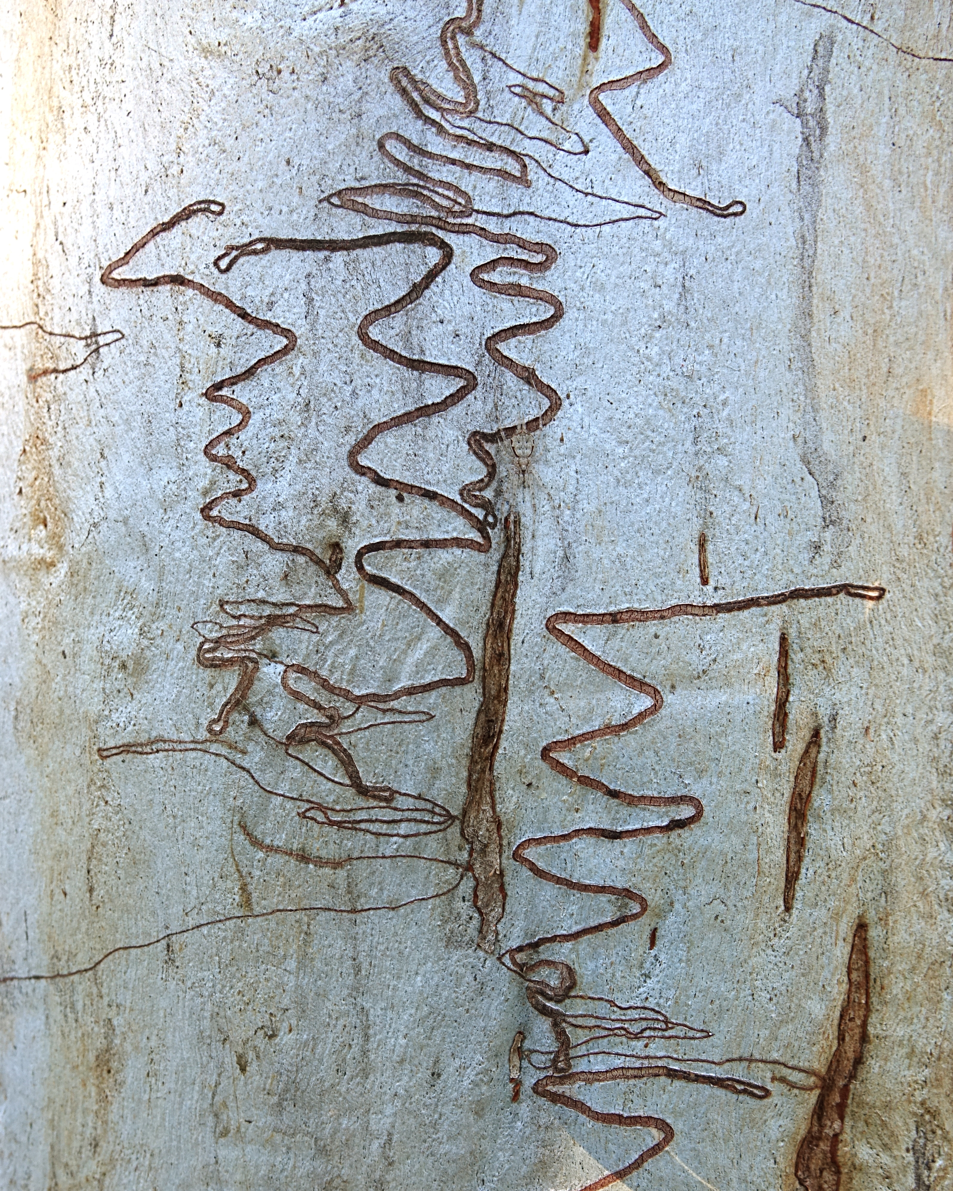 Scribbles on the south side of trunk